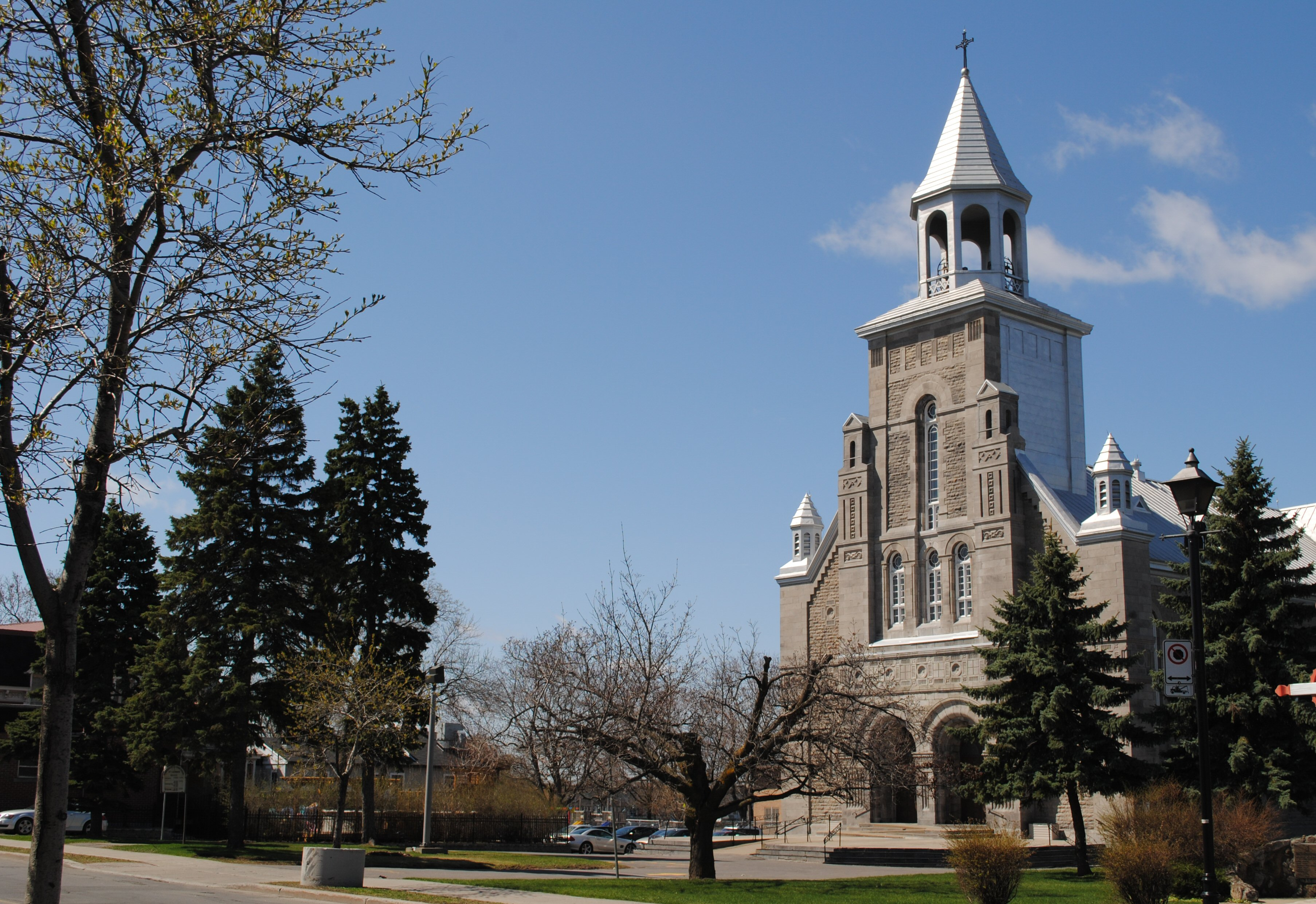 The Saint-Léonard Church, on Jarry Street in Saint-Léonard